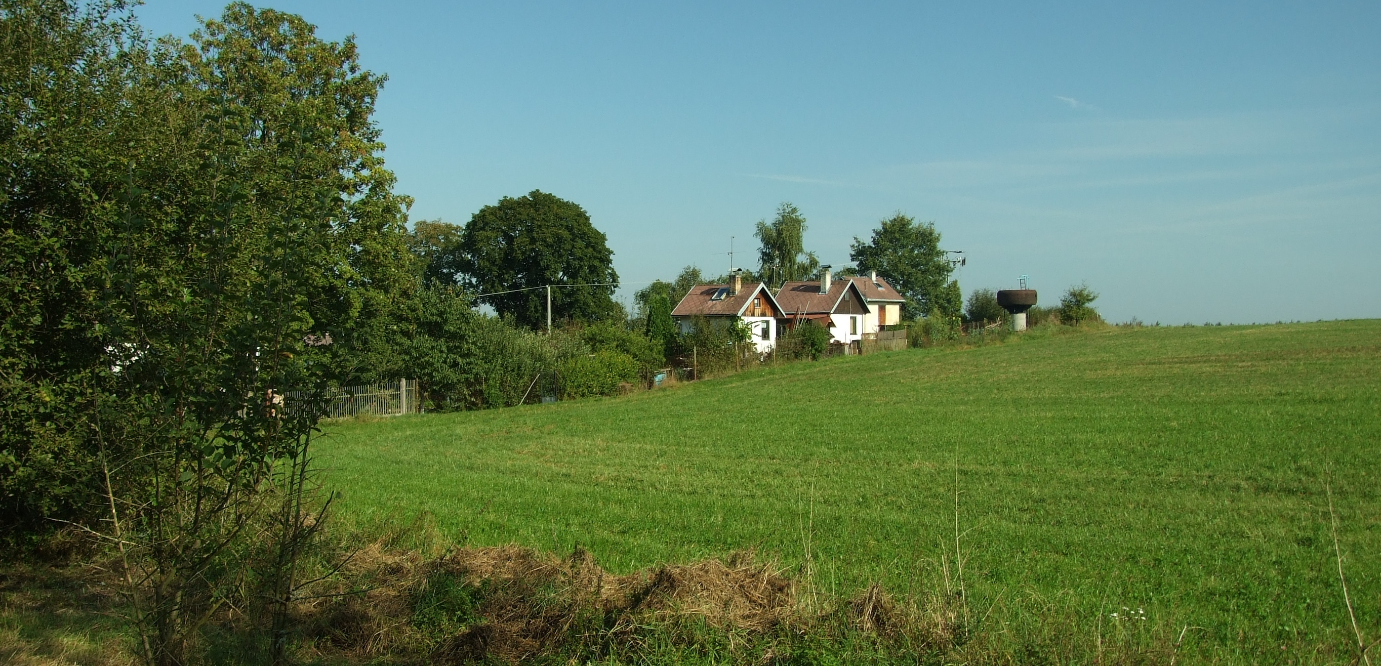 Spolí village, South Bohemian Region, CZhelp